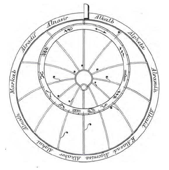 This is a representation of THE RETE or ZODIAK of Chaucer's astrolabe